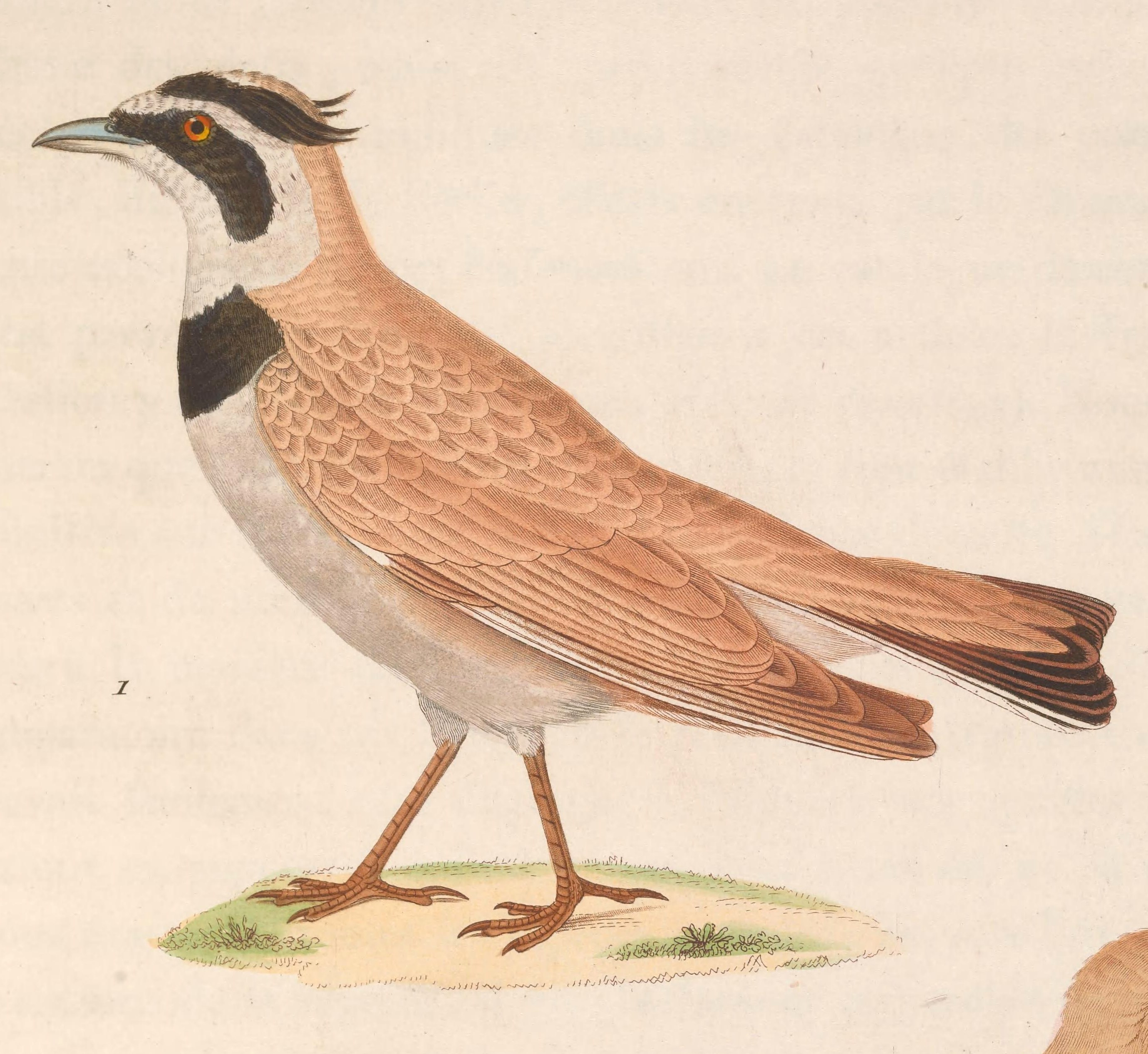 « Alauda bilopha » = Eremophila bilopha (Temminck's Lark) - male